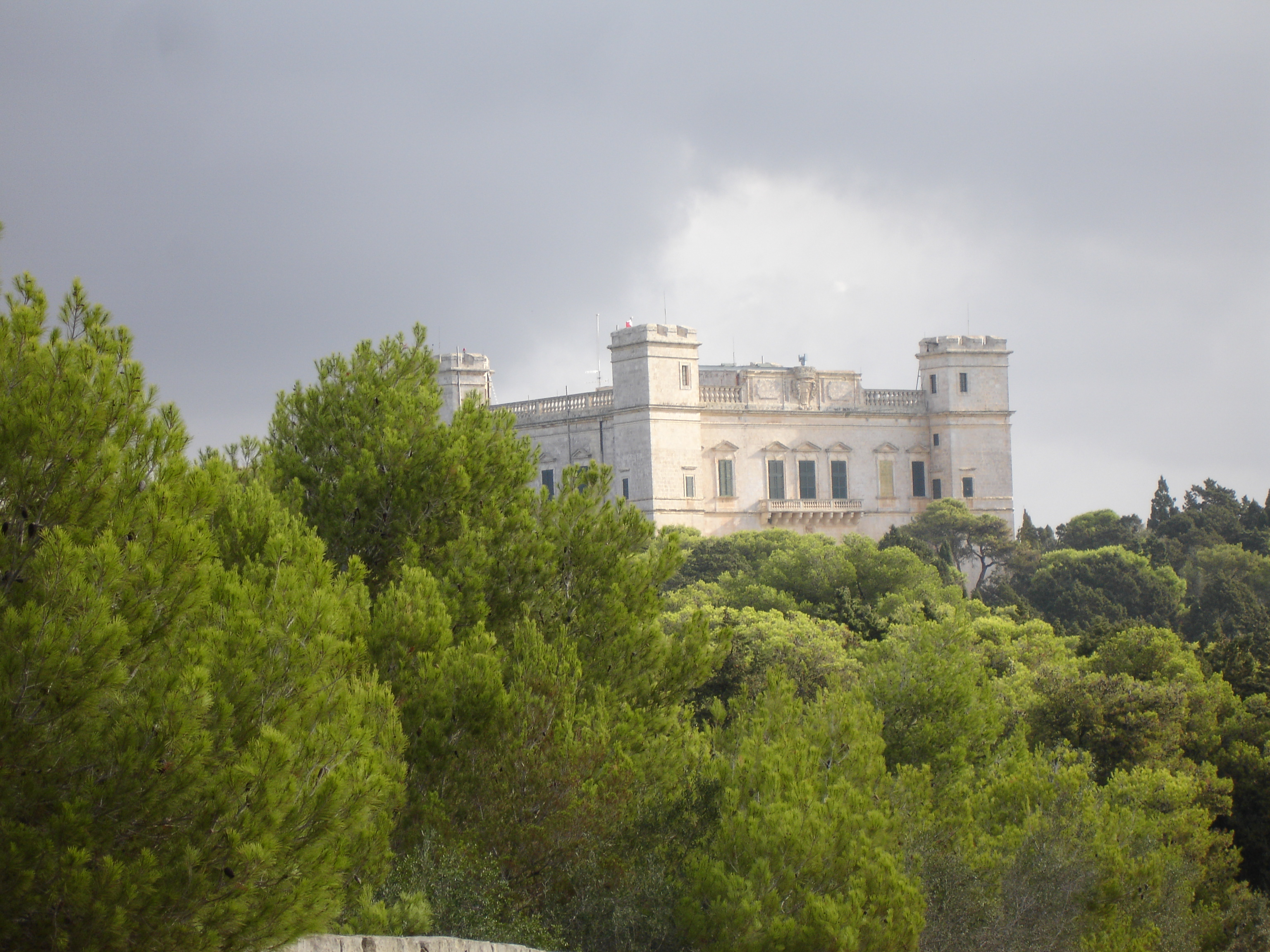 Castle in Malta